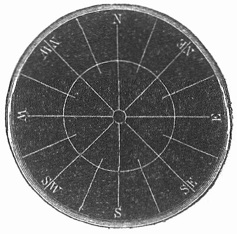 Nephoscope, instrument to mesure the direction of the clouds in the sky